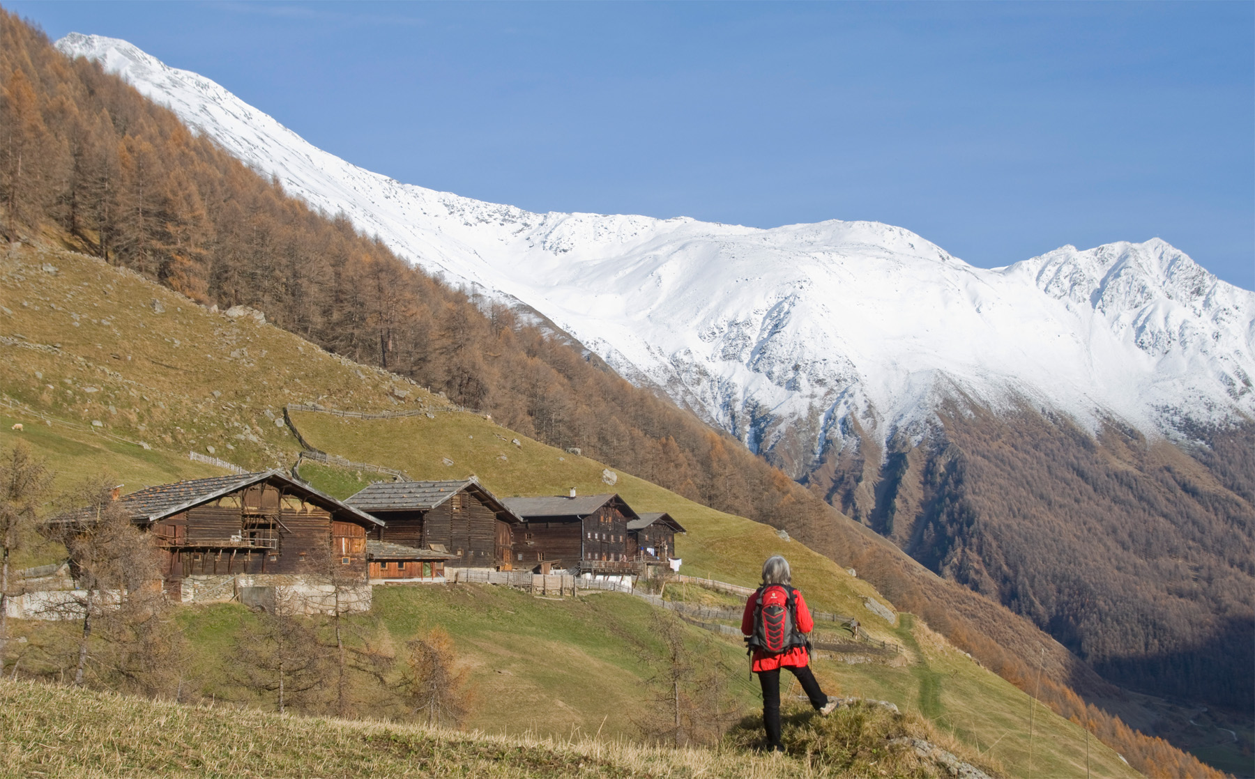 Schnals (South Tyrol), the Finailhöfe (Finail farms), built with larch trunks. 1.952m/ 6,404ft above sea level (Farmhouse Type: Bavarian Paarhof) - leftmost snow capped mountain is the Similaun 3.607m/ 11,834ft, the place where Ötzi the Iceman was found.